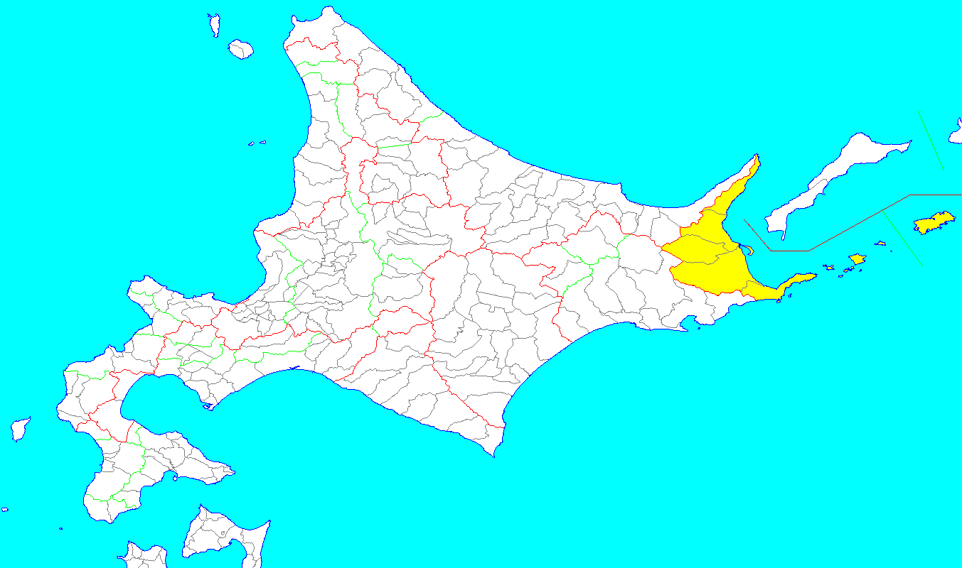 area of Nemuro provinces of Hokkaido in Japan(1869/08/15)